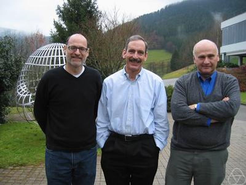 From left: Sy Friedman, Hugh Woodin, Menachem Magidor, Oberwolfach 2005 (Workshop Set Theory)